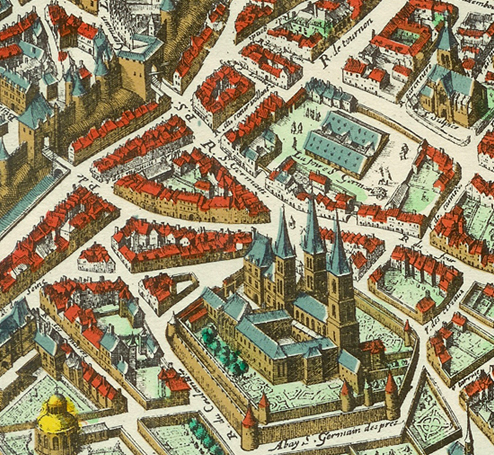 Detail from the 1615 Merian map of Paris showing part of the Left Bank of the Seine with the Abbey of Saint-Germain-des-Prés (lower half just to the right of center), the Foire Saint-Germain (above and more to the right), the Église Saint-Sulpice (upper right corner), and the old city wall with two gates (upper left corner)